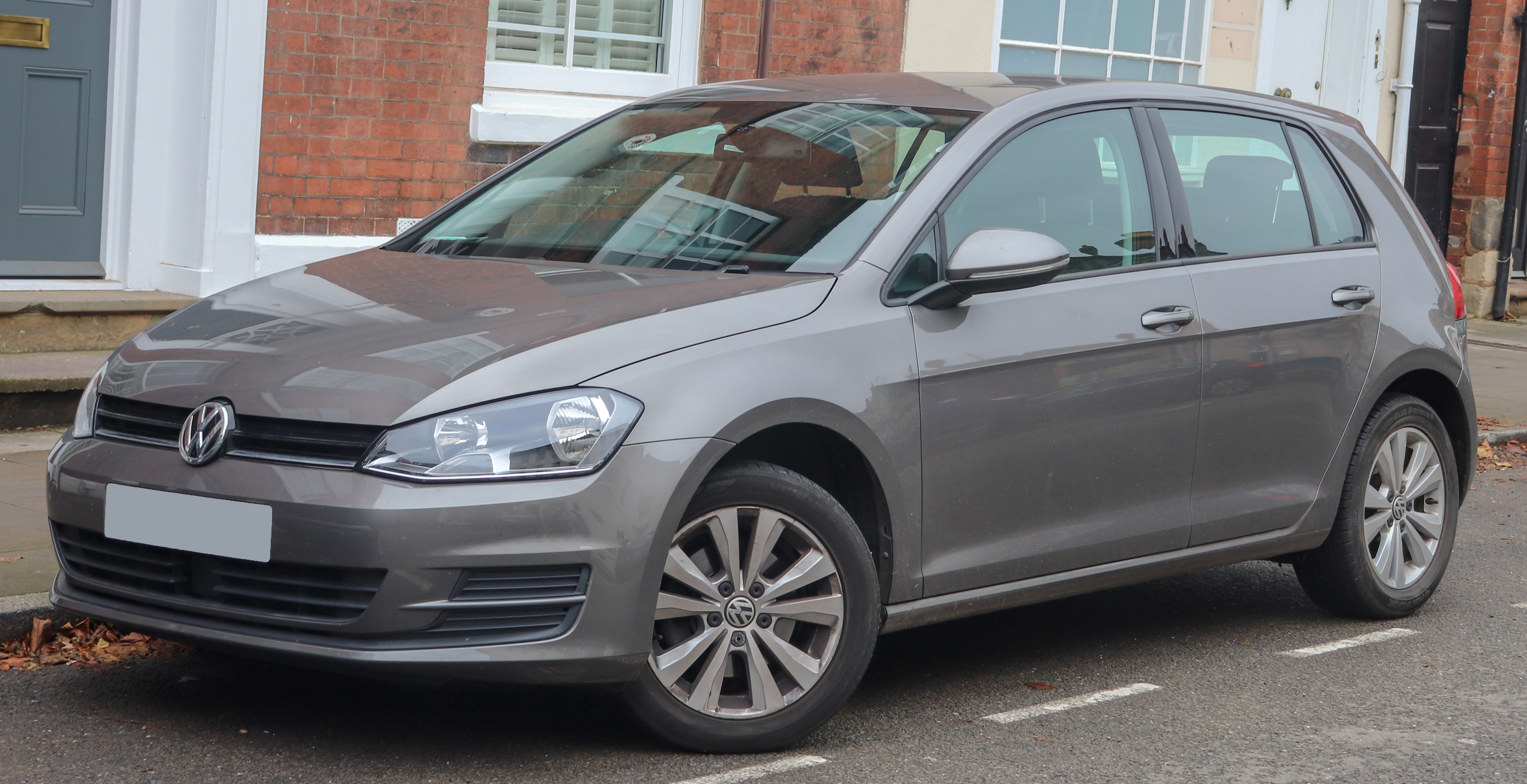 2013 Volkswagen Golf SE BlueMotion Technology 1.4 Front Taken in Warwick